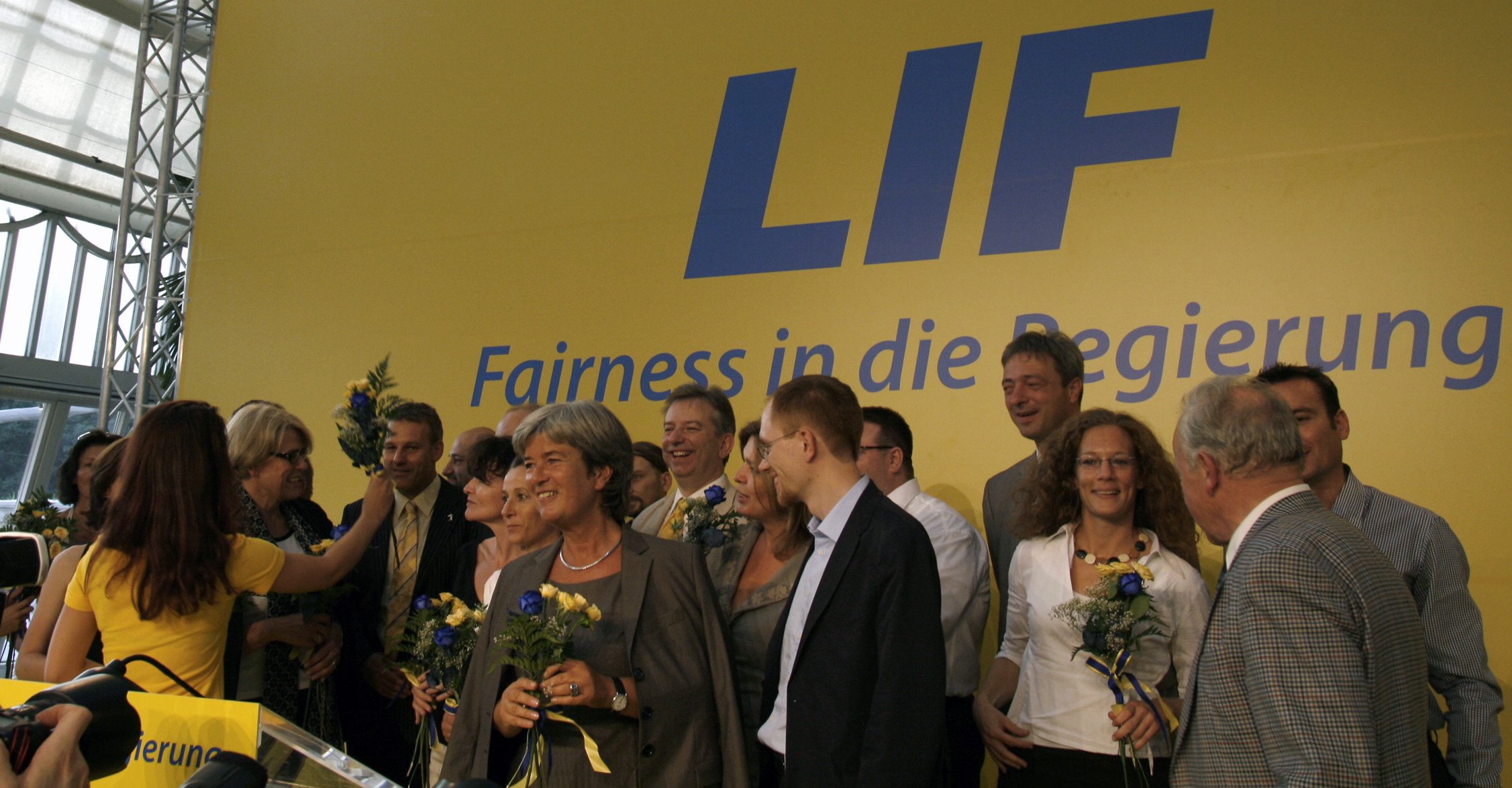 Presentation of the candidates of the Liberal Forum for the Austrian legislative election, 2008 Vienna)